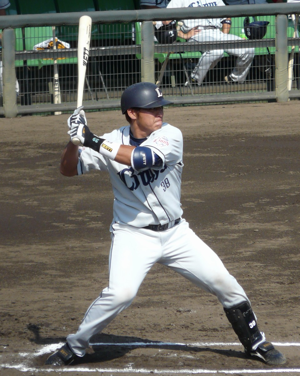 Tatsuya-Takeno